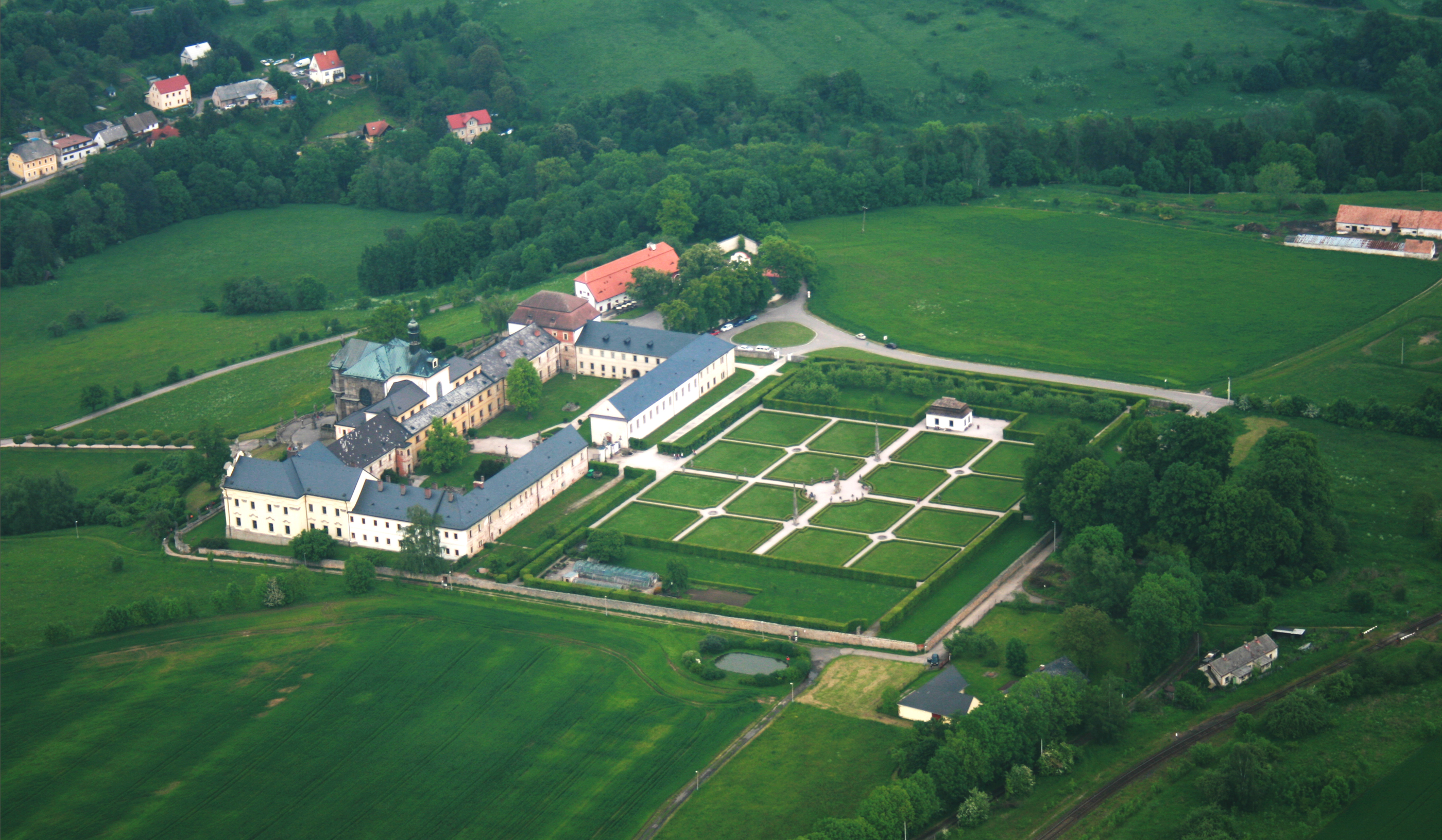 Old Hospital Kuks, (small castle) from air, eastern Bohemia, Czech Republic